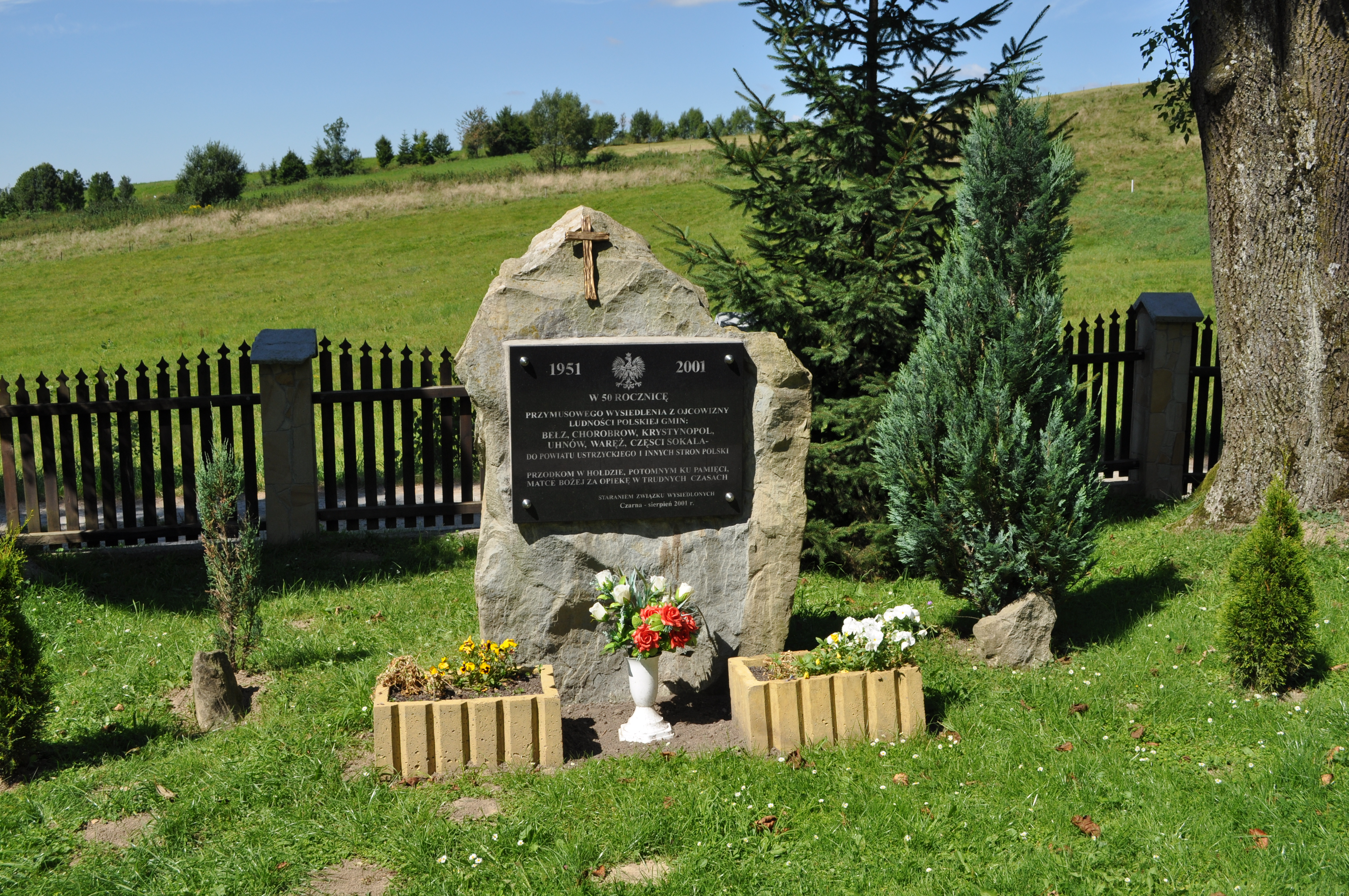 Church in Czarna